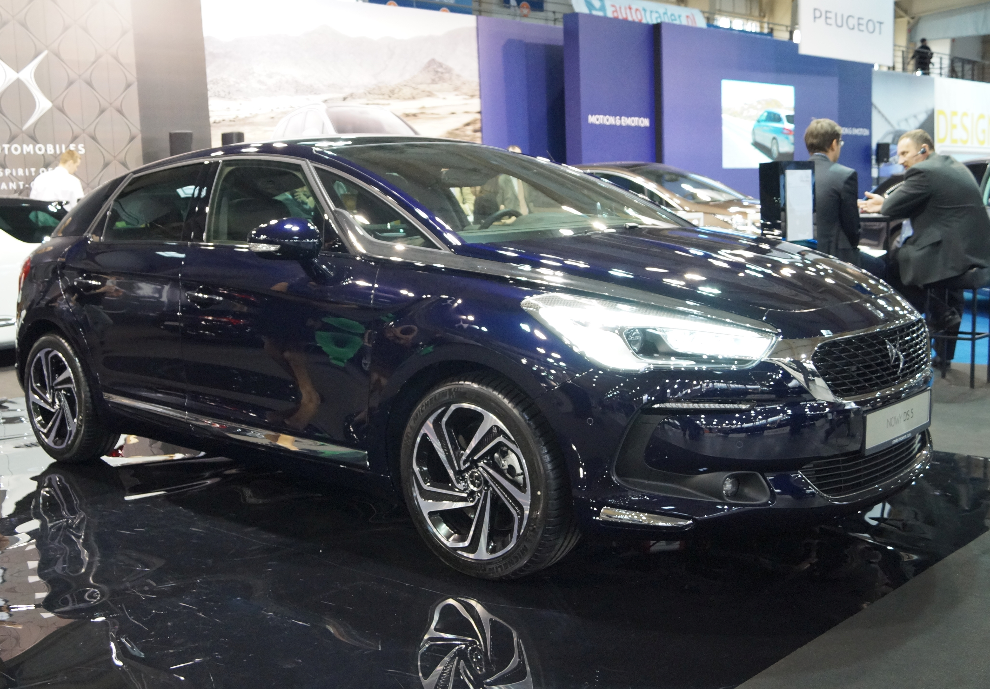 The making of this document was supported by Wikimedia Polska Association, within Wikigrant no. WG 2015-19. Citroën DS5 na Motor Show Poznań 2015